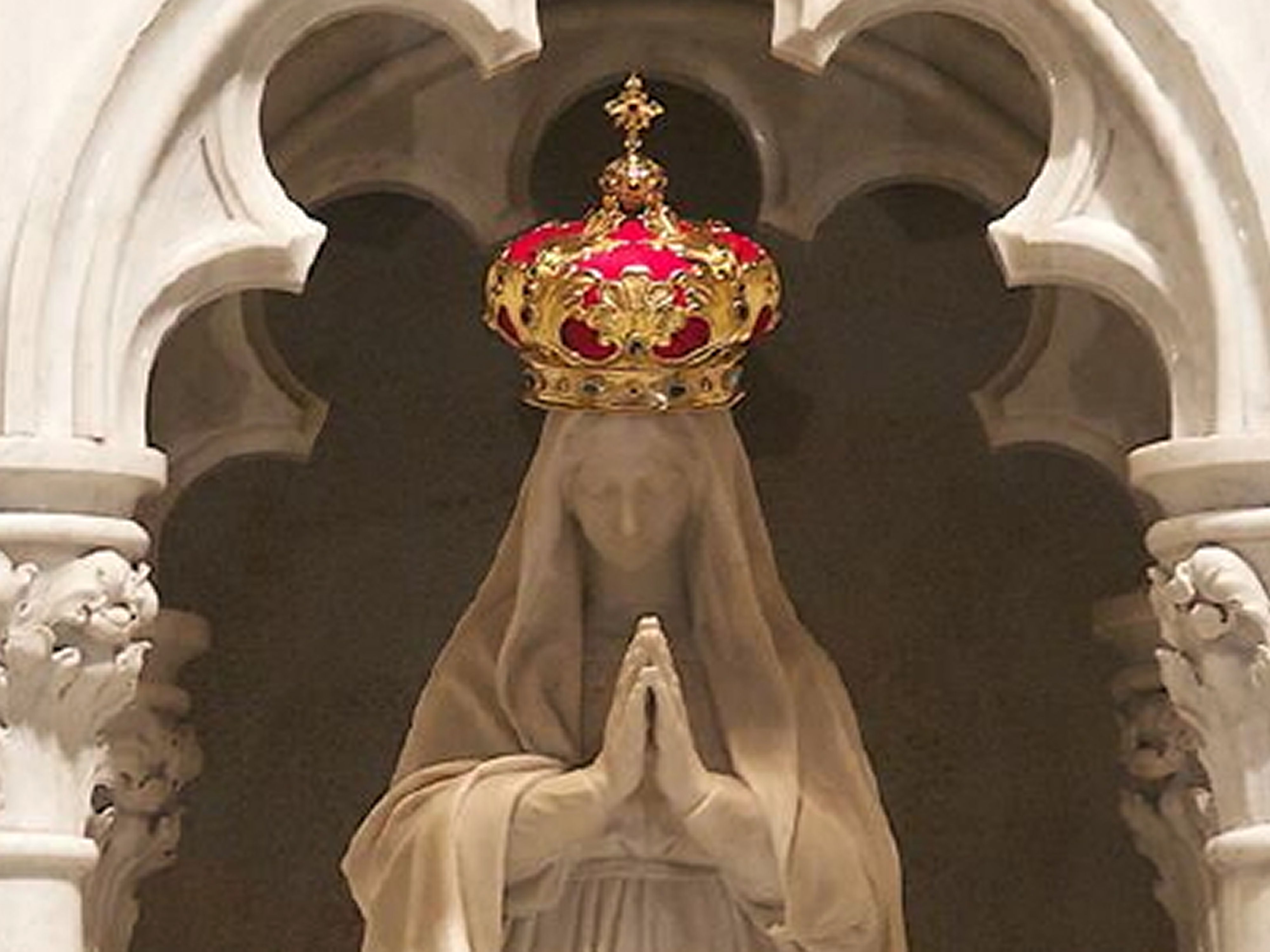 Salus Populi Lacus Caroli, Our Lady of Immaculate Conception